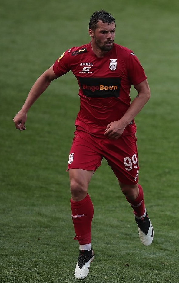 Andrei Kozlov with FC Ufa in a game against FC Lokomotiv Moscow.